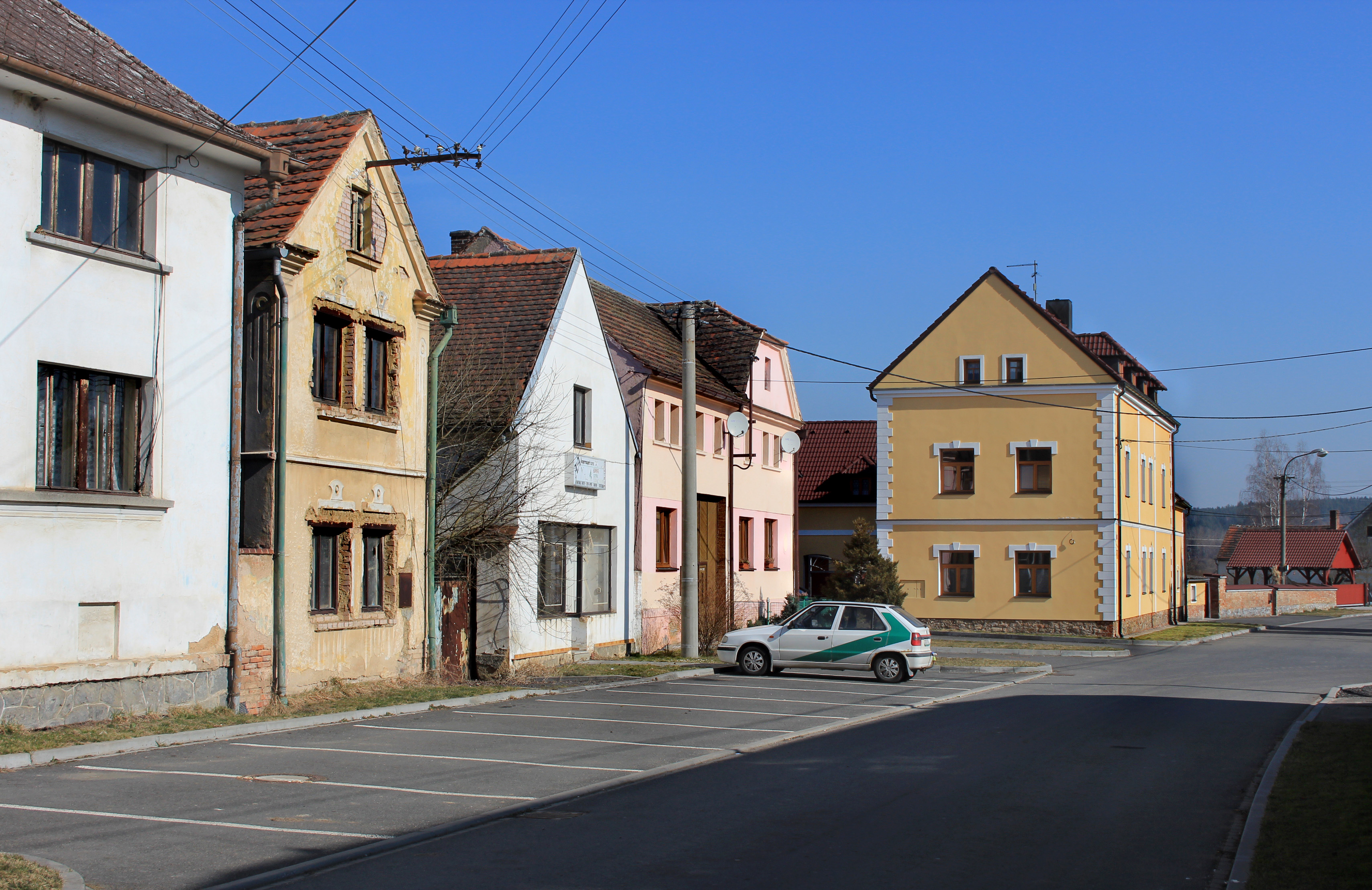 Common in Sytno, Czech Republic